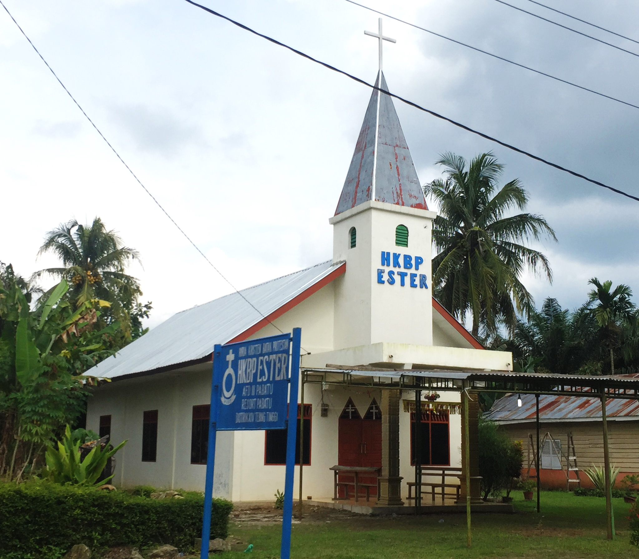 HKBP Ester Afd. III Pabatu, Church in Pabatu, Dolok Merawan, Tebing Tinggi, North Sumatra